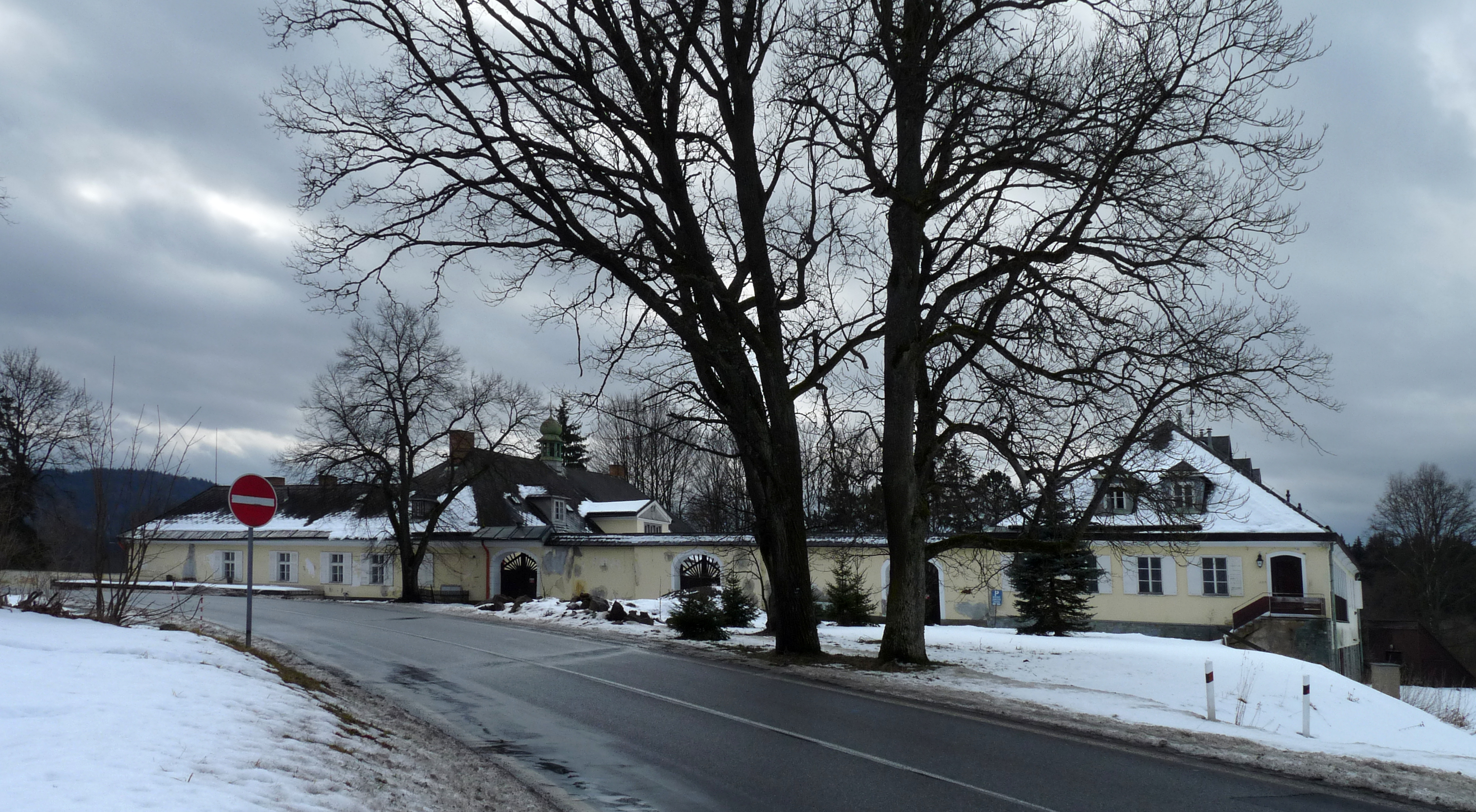 Castle in the village of Lenora, Prachatice District, South Bohemian Region, Czech Republic.